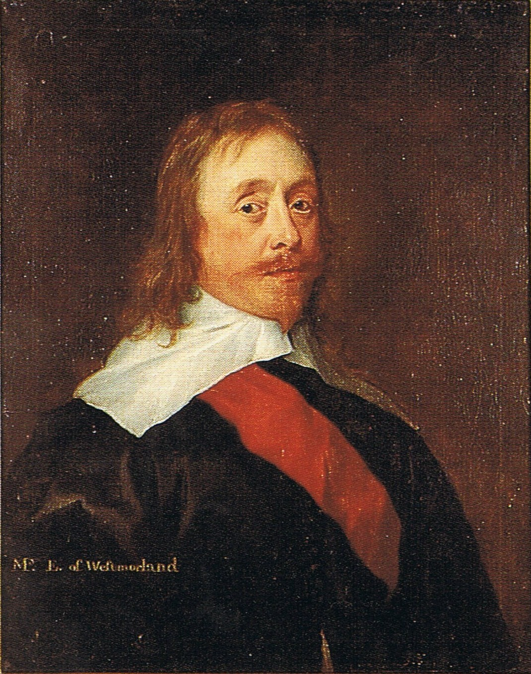 portrait c1630 of Mildmay Fane, 2nd Earl of Westmorland, wearing his red sash of the Knighthood of the Bath.Rodolph (talk) 15:28, 24 November 2009 (UTC)